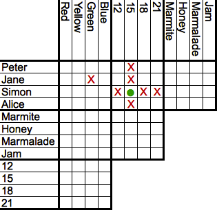 A example logic grid puzzle, with the information that Simon is 15 and that Jane does not like the colour green.